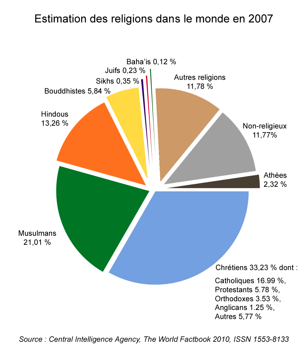 Religions statistique estimation 2007. Source: CIA, World Factbook.